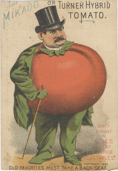 Persistent URL: Subject (TGM): Tomatoes; Vegetables; Fruit; Truck farming; Gardening; Gardens; Farm produce; Caricatures; Men; Humorous pictures; Seed trade; Seeds; Keywords: Mikado Turner Hybrid Tomato